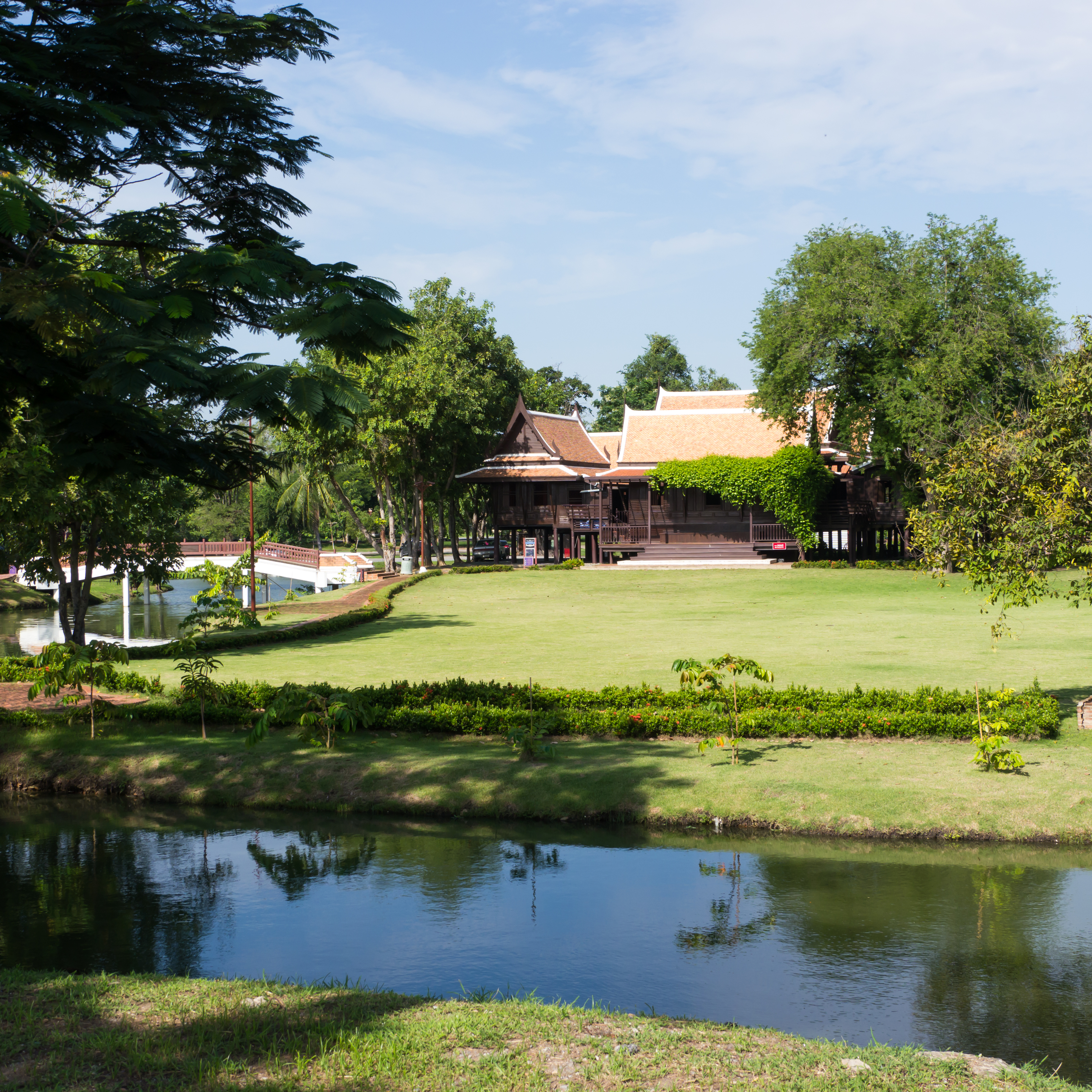 House of Khun Phaen – "Khun Chang Khun Phaen" is an epic Thai poem which originated from a legend of Thai folklore and is one of the most notable works in Thai literature.